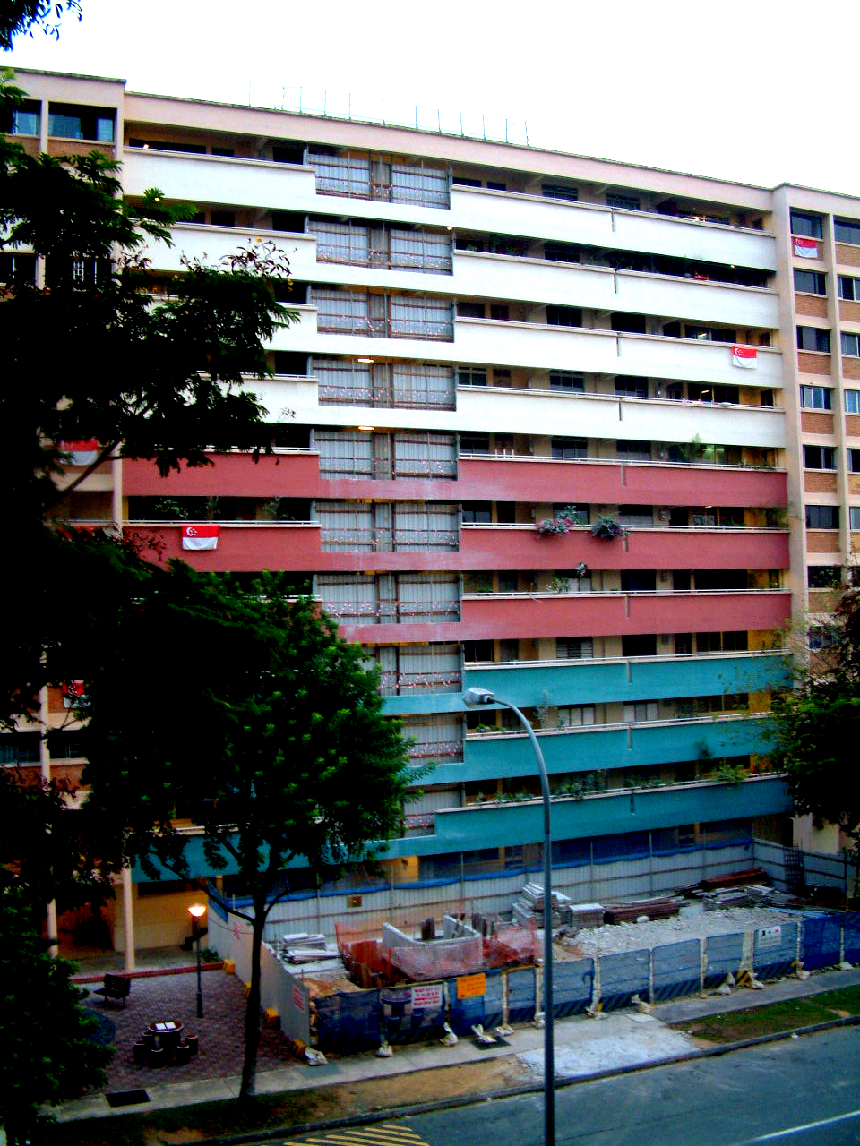 A Housing and Development Board block in Singapore undergoing lift upgrading under the Lift Upgrading Programme. A section of the wall is cut (centre), then prefabricated lift columns are fitted from bottom to top at the cut sections with the motor room at the very top.